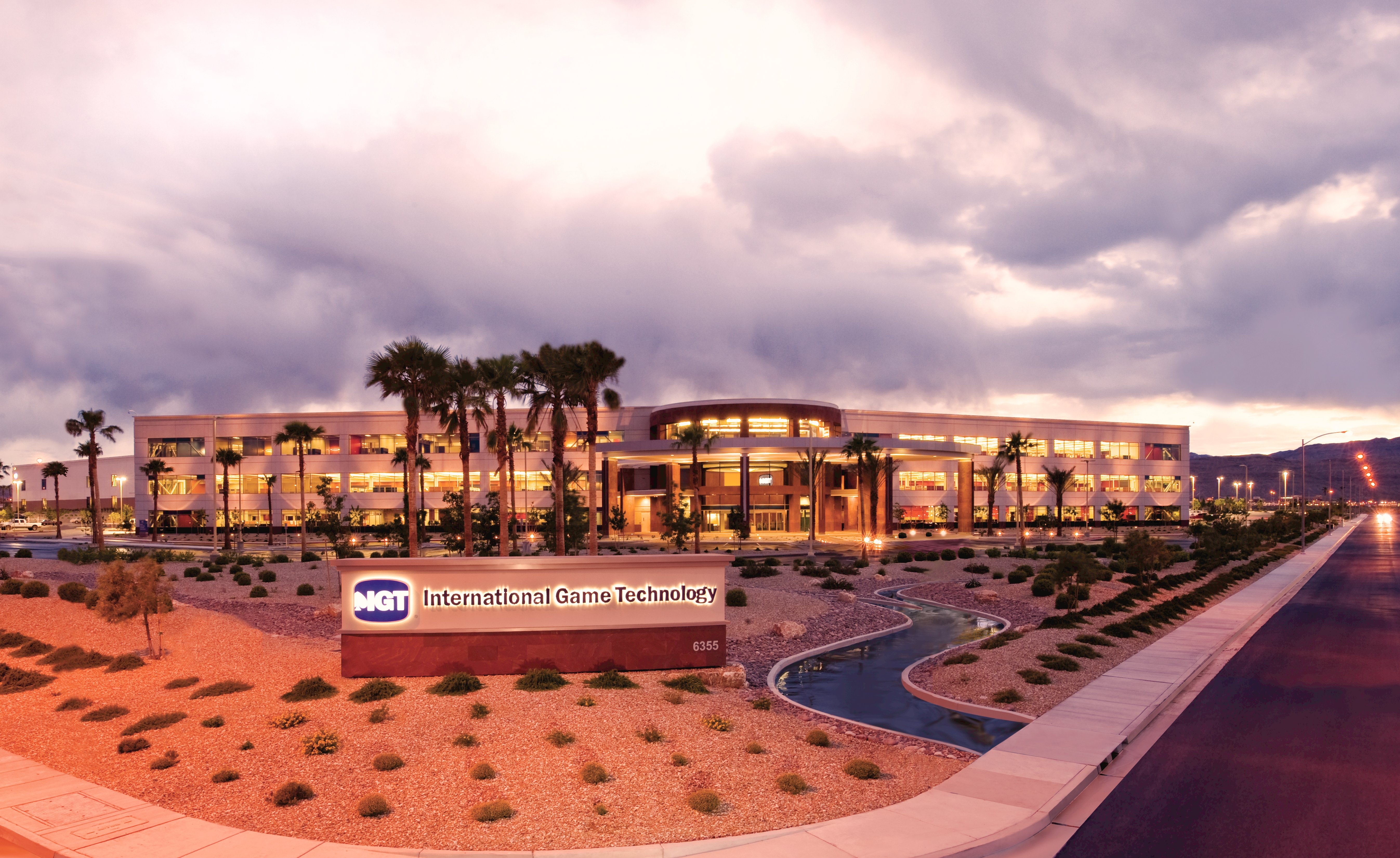 An image of the IGT office in Las Vegas.